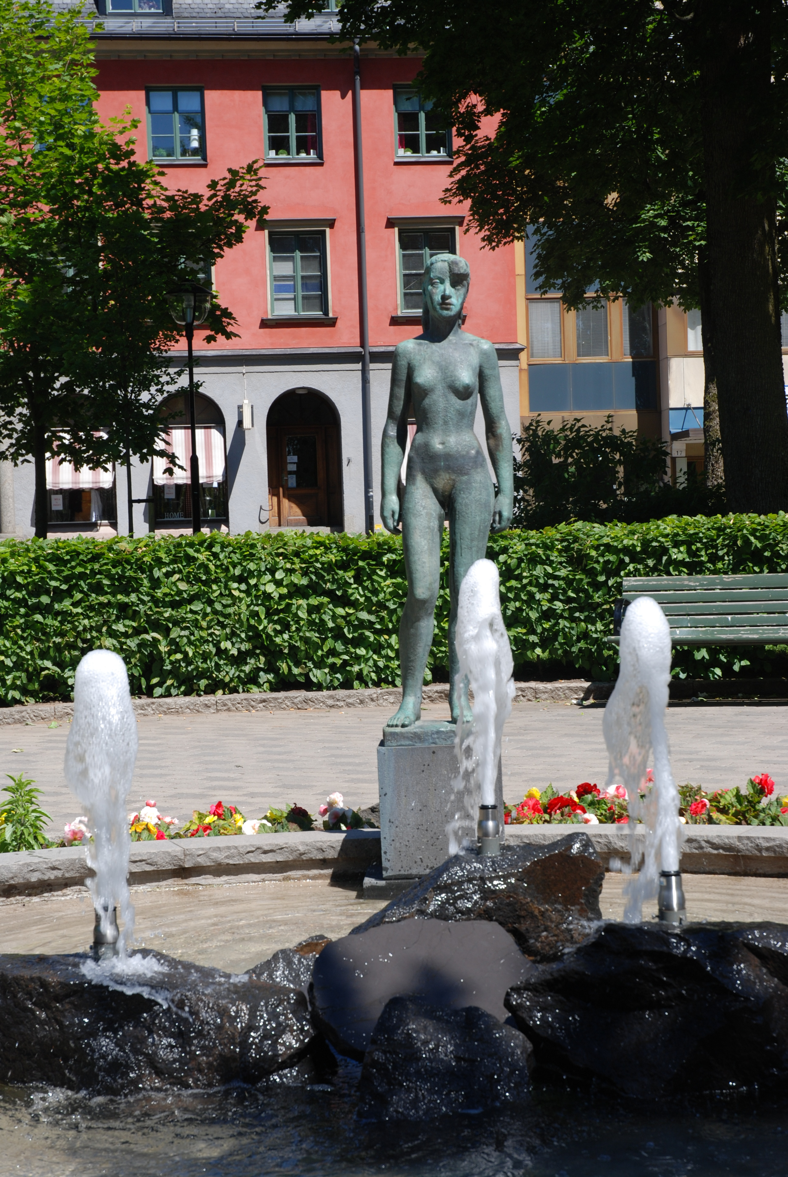 Skulptur av John Lundqvist järnvägsparken i Ljungby